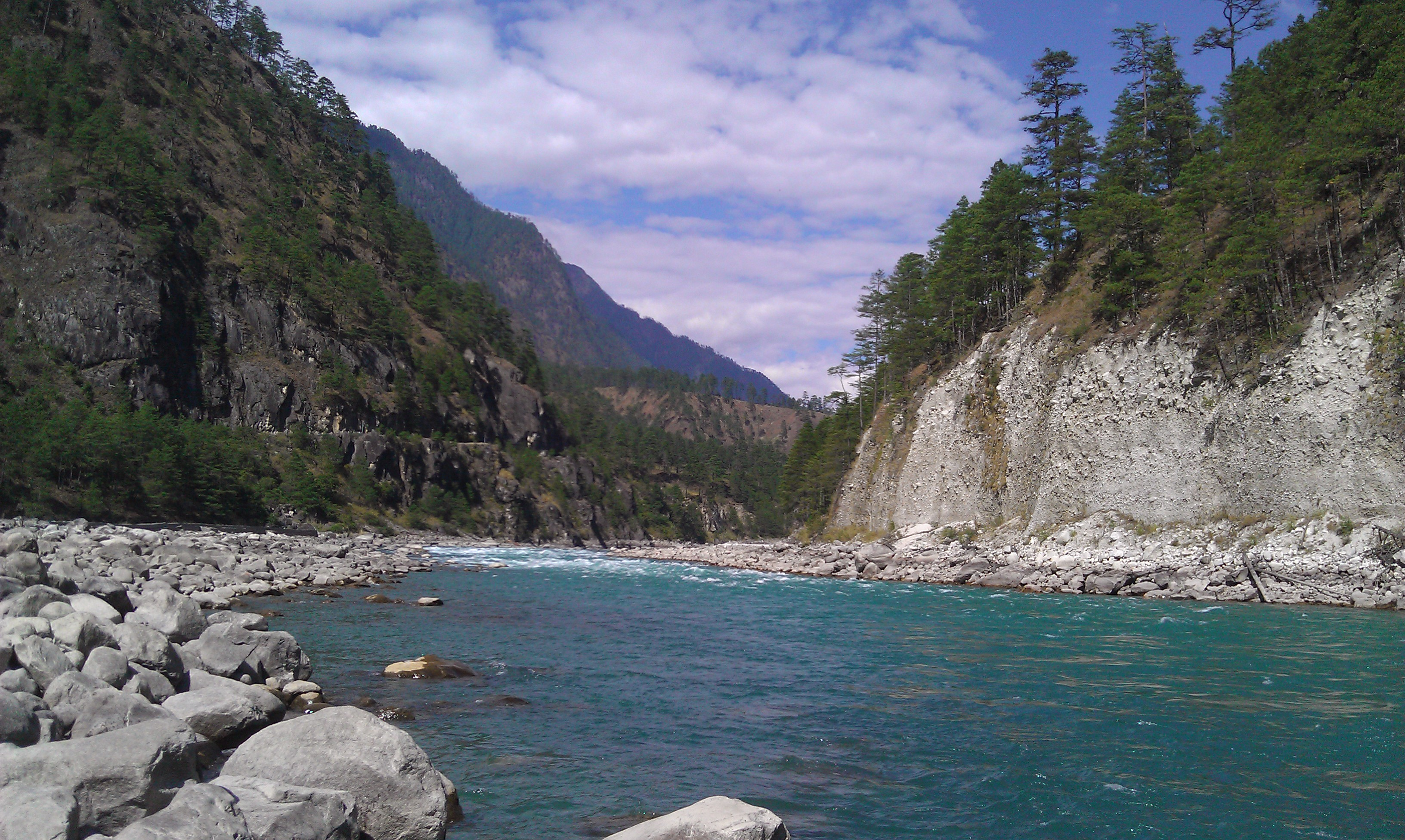 Photo of Lohit river. Hot water spring is nearby this location.